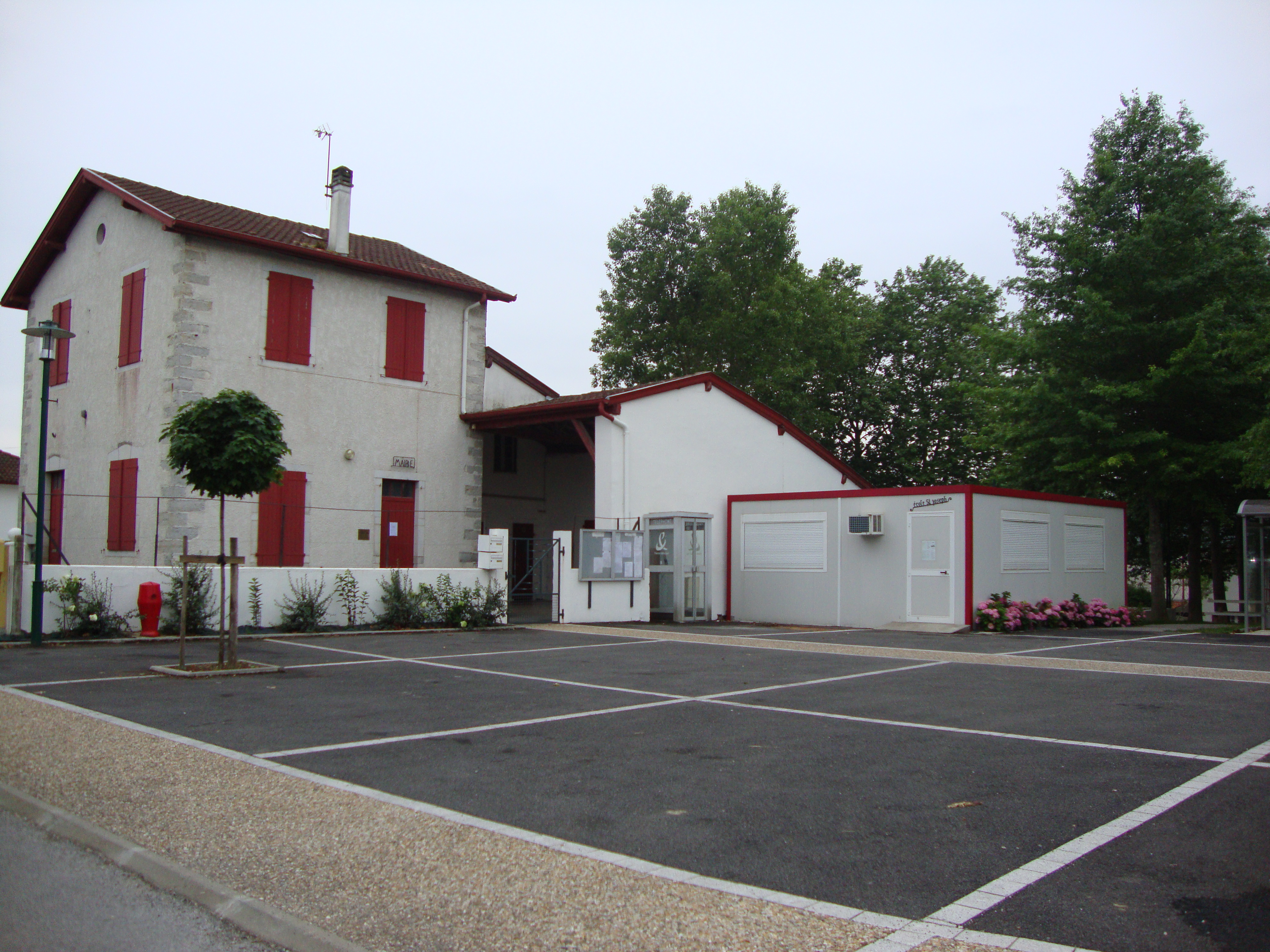 Béhasque-Lapiste (Pyr-Atl,_Fr) town hall in Béhasque.